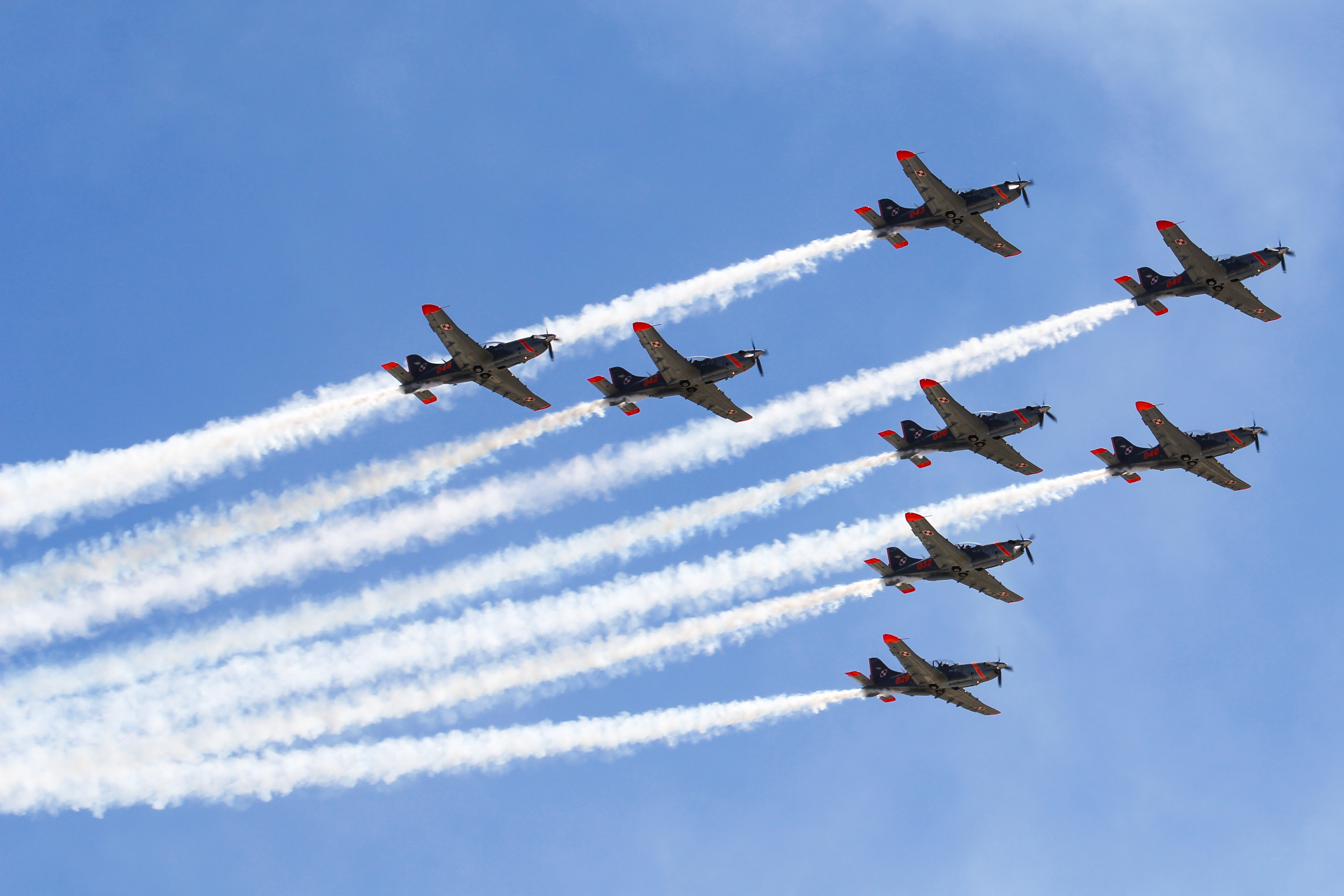 The Polish Air Force's Orlik aerobatic team performing at the 2015 Malta International Airshow